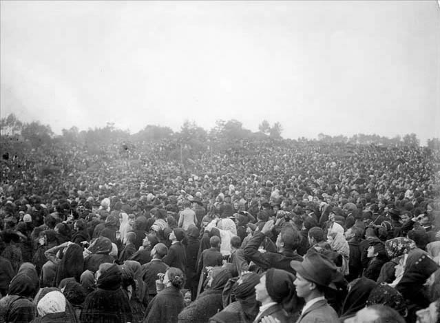 Part of the near about 100,000 people that witnessed the event known as "The Miracle of the Sun" occurred on October 13, 1917.